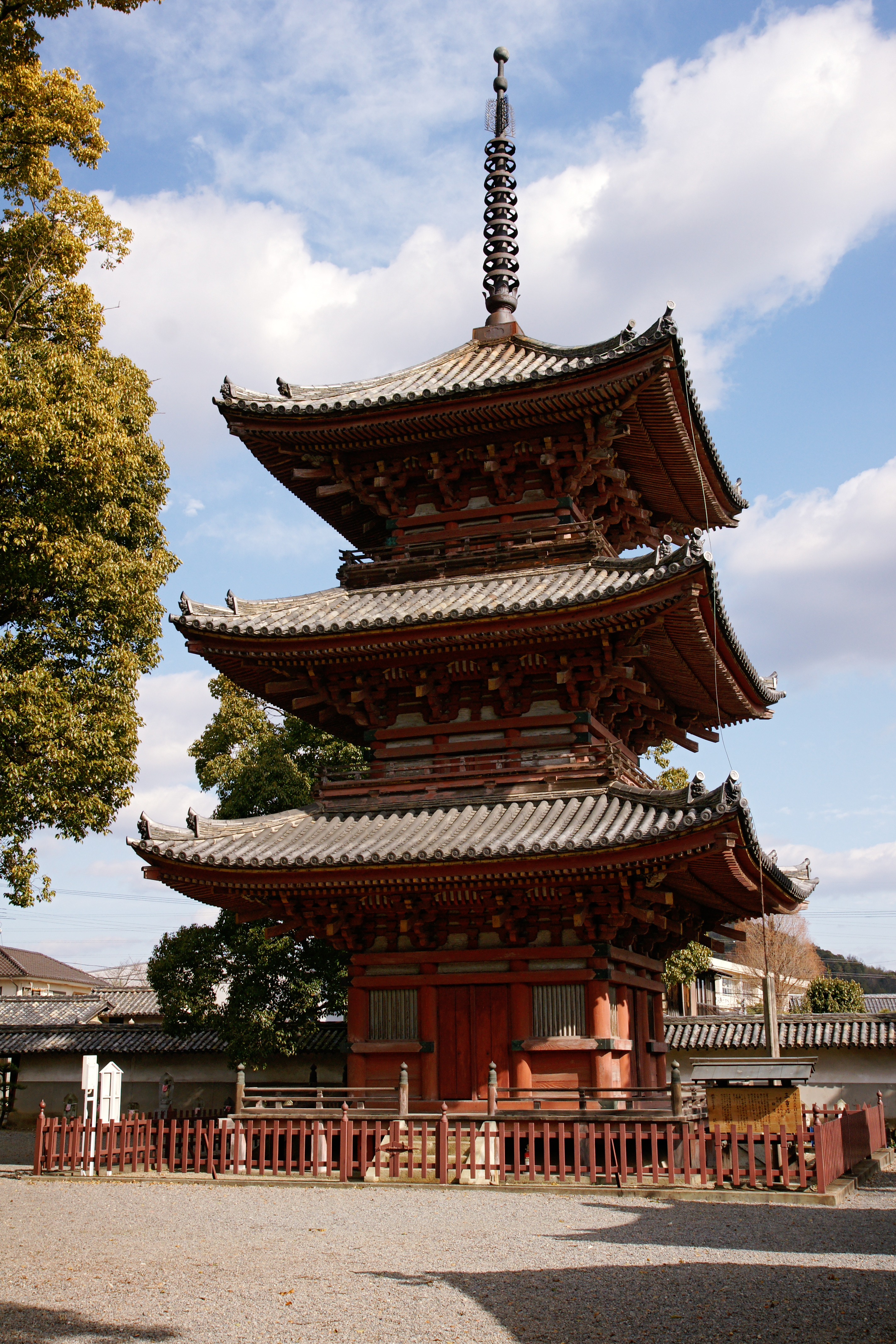 Ikaruga-dera (Hankyu-ji) in Taishi, Hyogo prefecture, Japan.